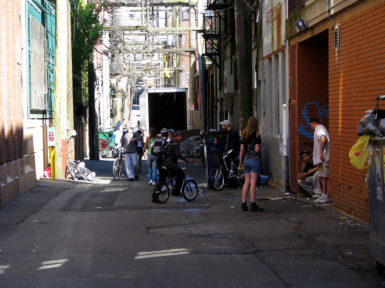 Typical alleyway scene during a hot summertime, in the ghetto downtown eastside area of Vancouver BC Canada.